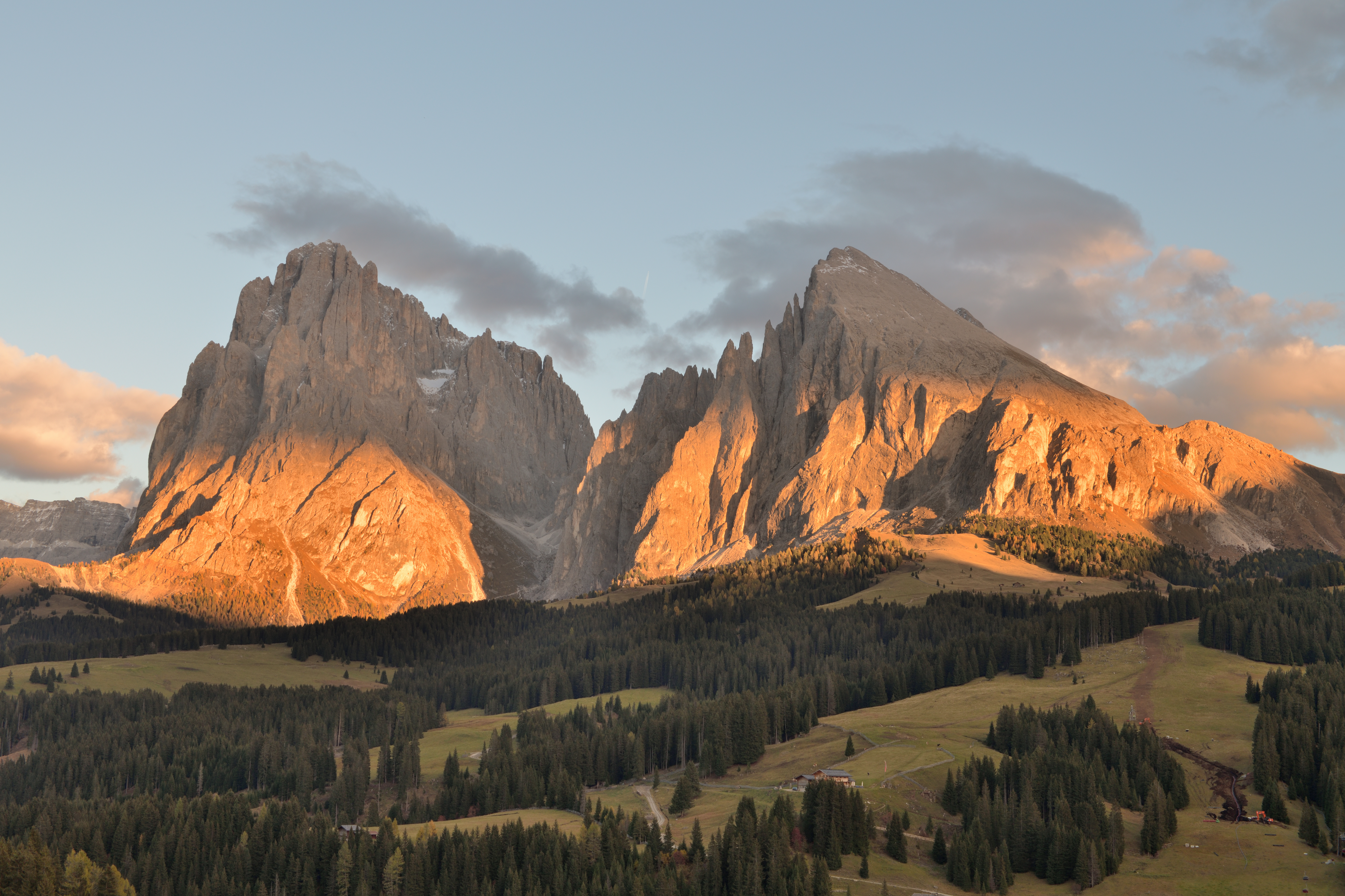 Sunset on the Seiser Alm in South Tyrol, with the mountains of Langkofel group in the background.